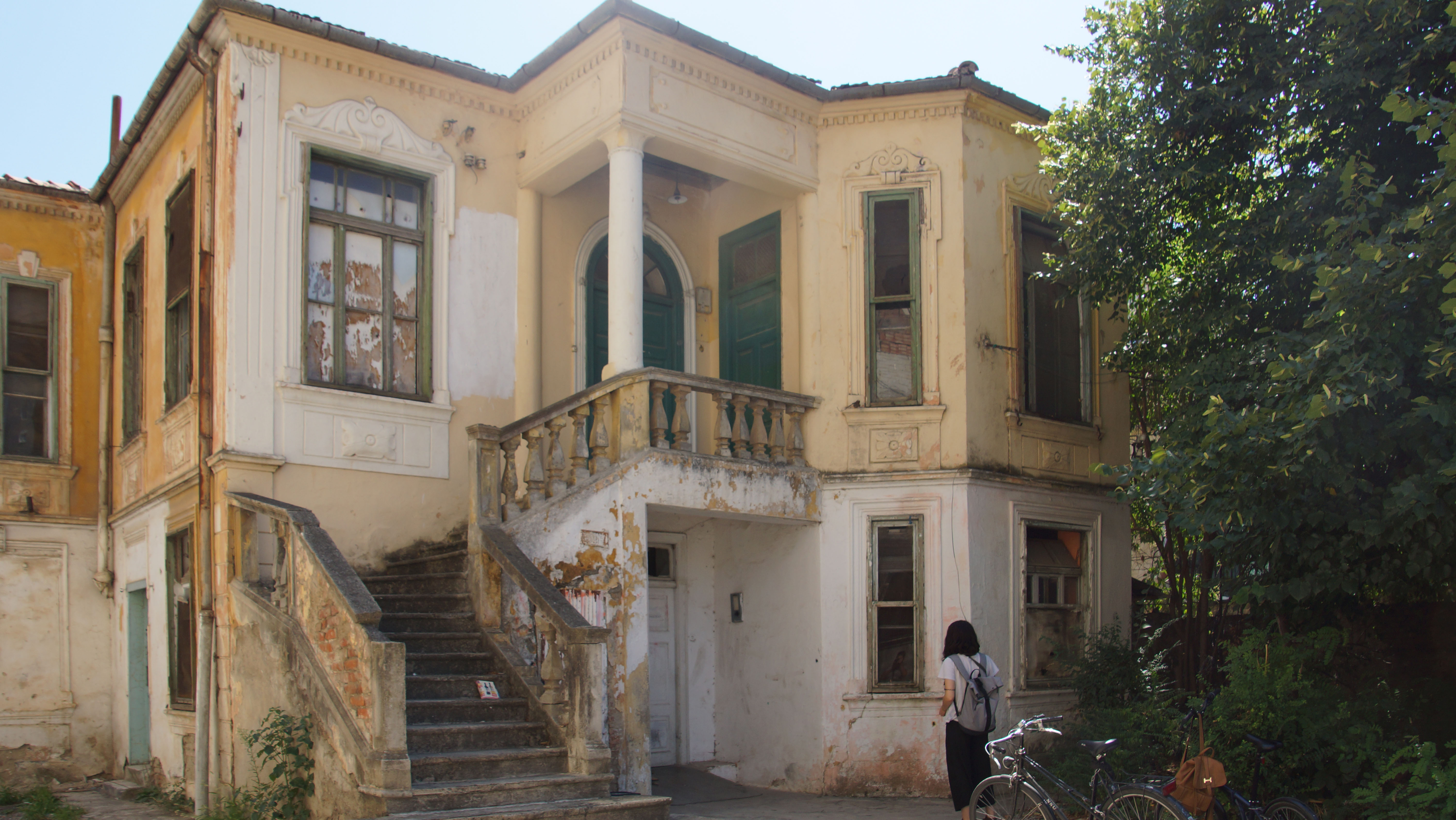 Old villa located in Tirana bazaar area quite neglected.